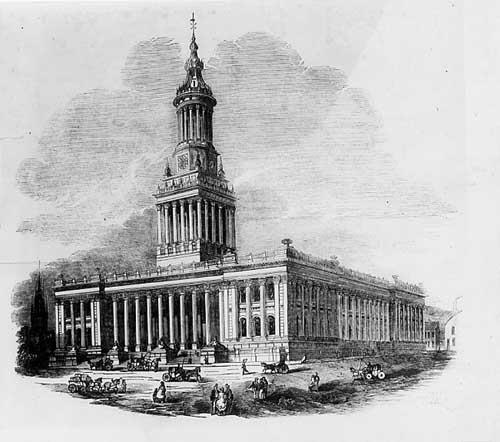 Drawing of Leeds Town Hall